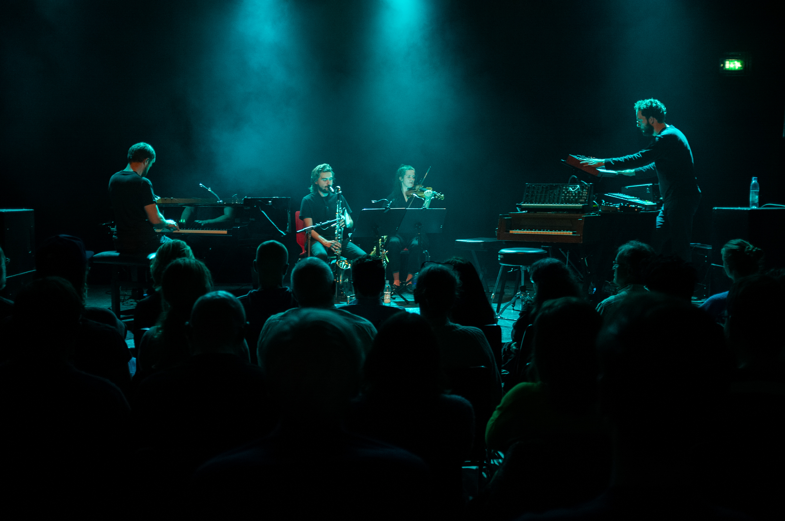 Carlos Cipa Ensemble Ampere 2019